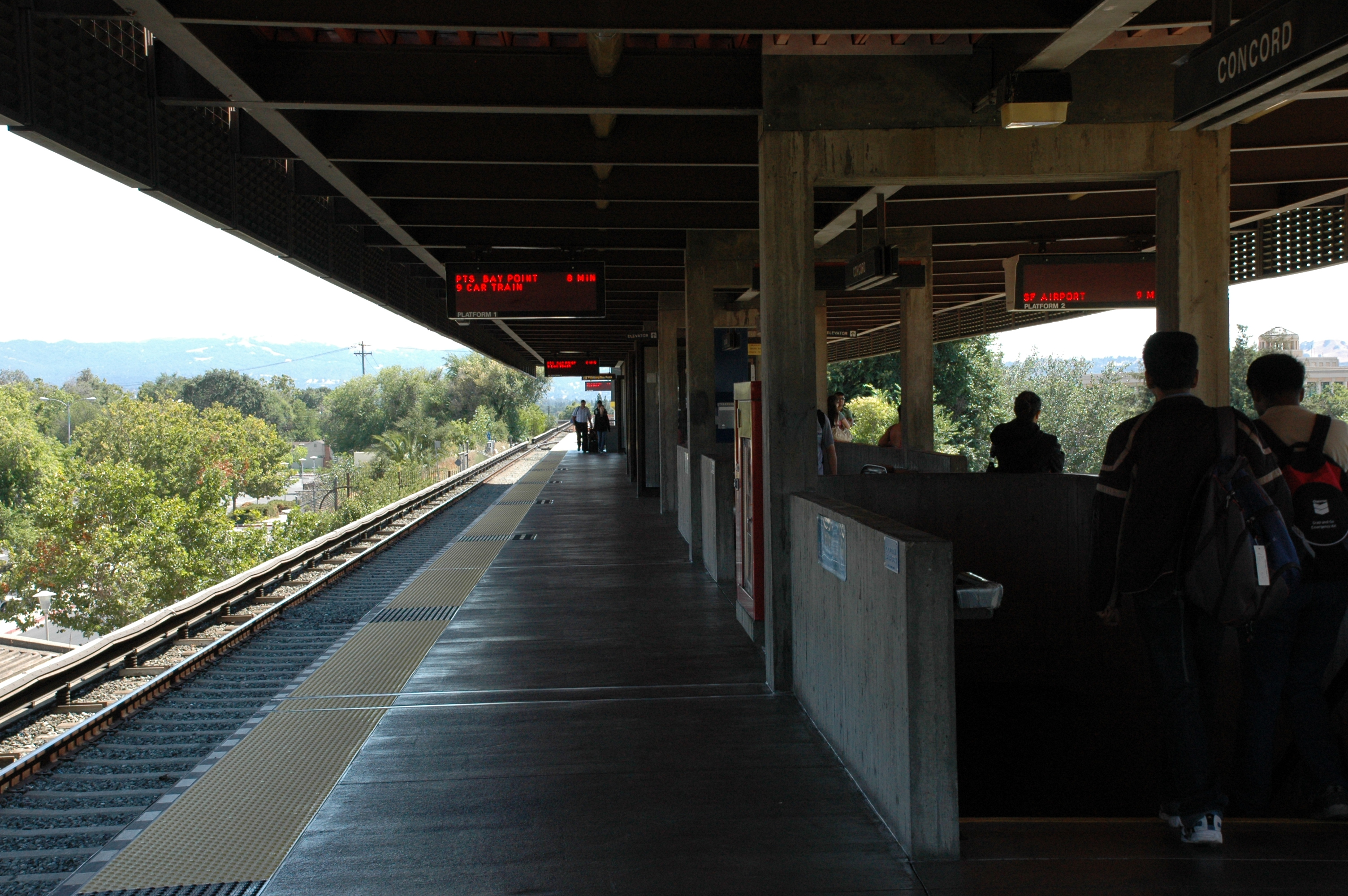 Concord BART